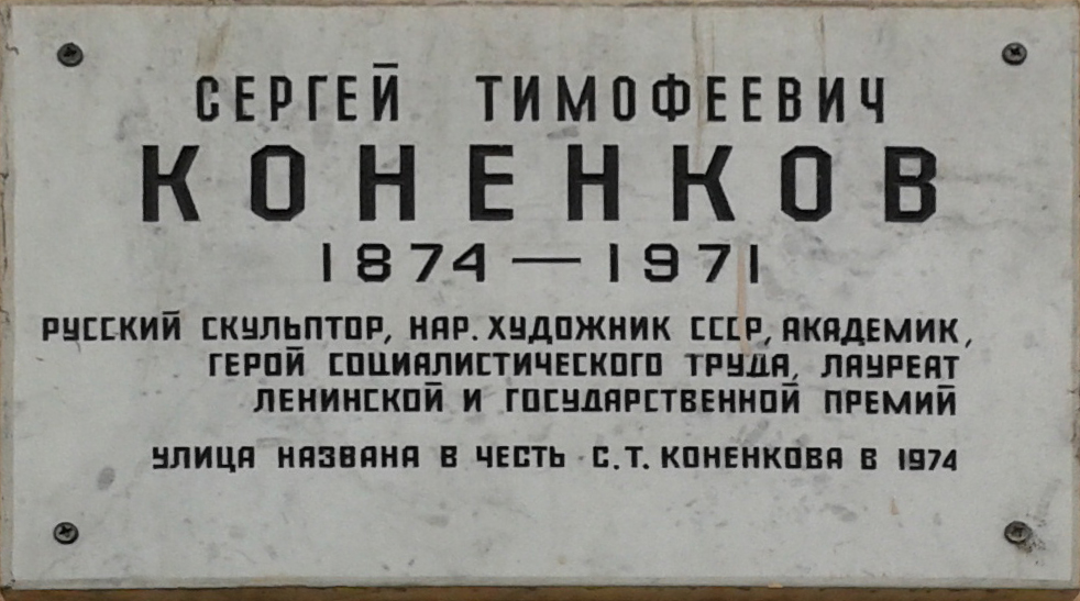 Commemorative plaque in tribute to S.T.Konyonkov, famous soviet sculptor, on street in Moscow, Russia